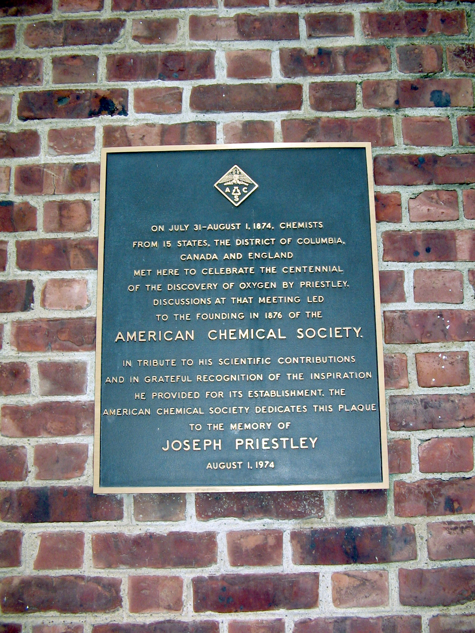 Plaque commemorating the centennial of the American Chemical Society (ACS) on the Pond Museum at the Joseph Priestley House in Northumberland, Northumberland County, Pennsylvania, USA.